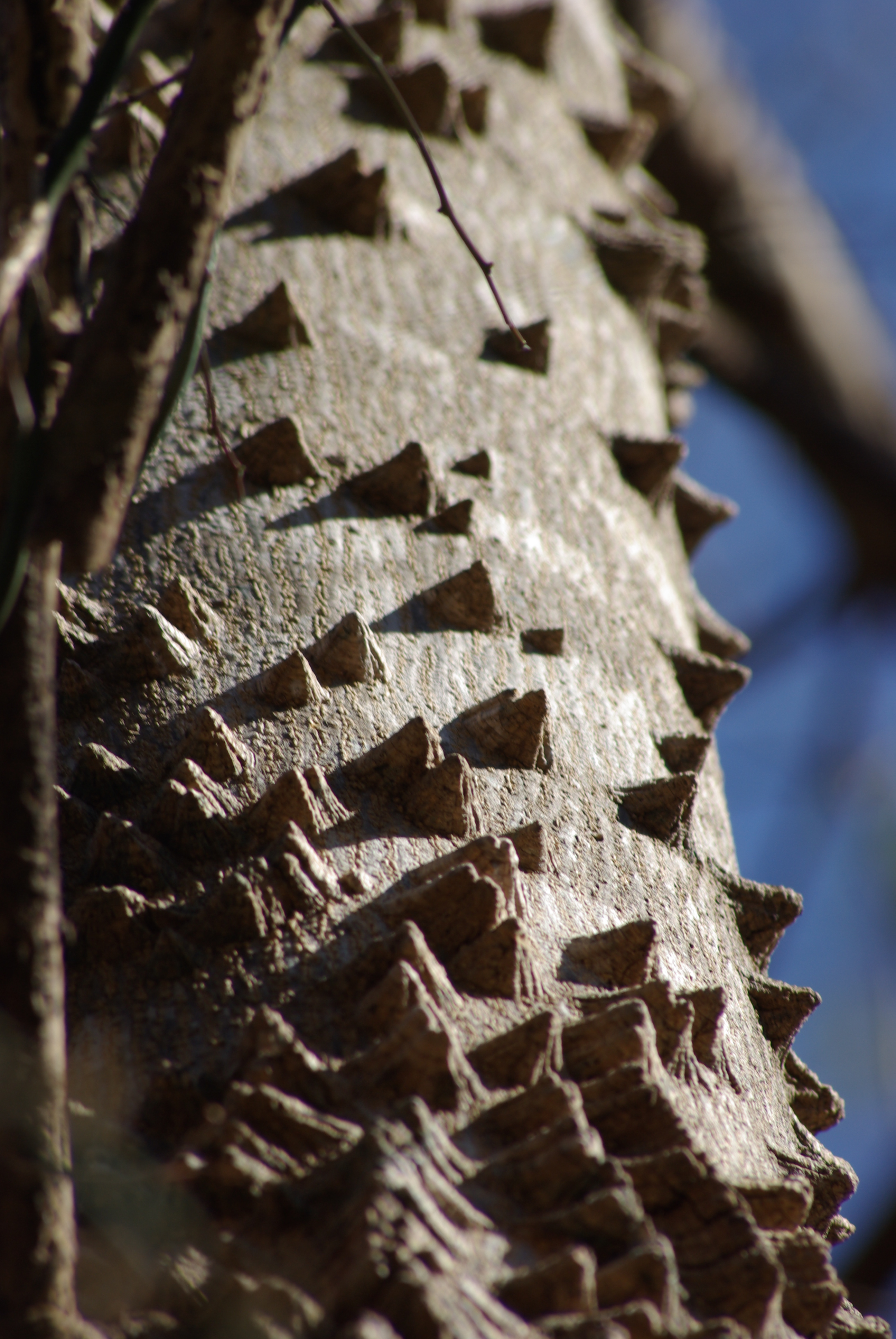 The pointy knobs on the bark of the Zanthoxylum clava-herculis give it the name Hercules Club. The tree is also known as Prickly Ash or Toothache Tree. This specimen located in Crowley Park, Richardson, Texas.